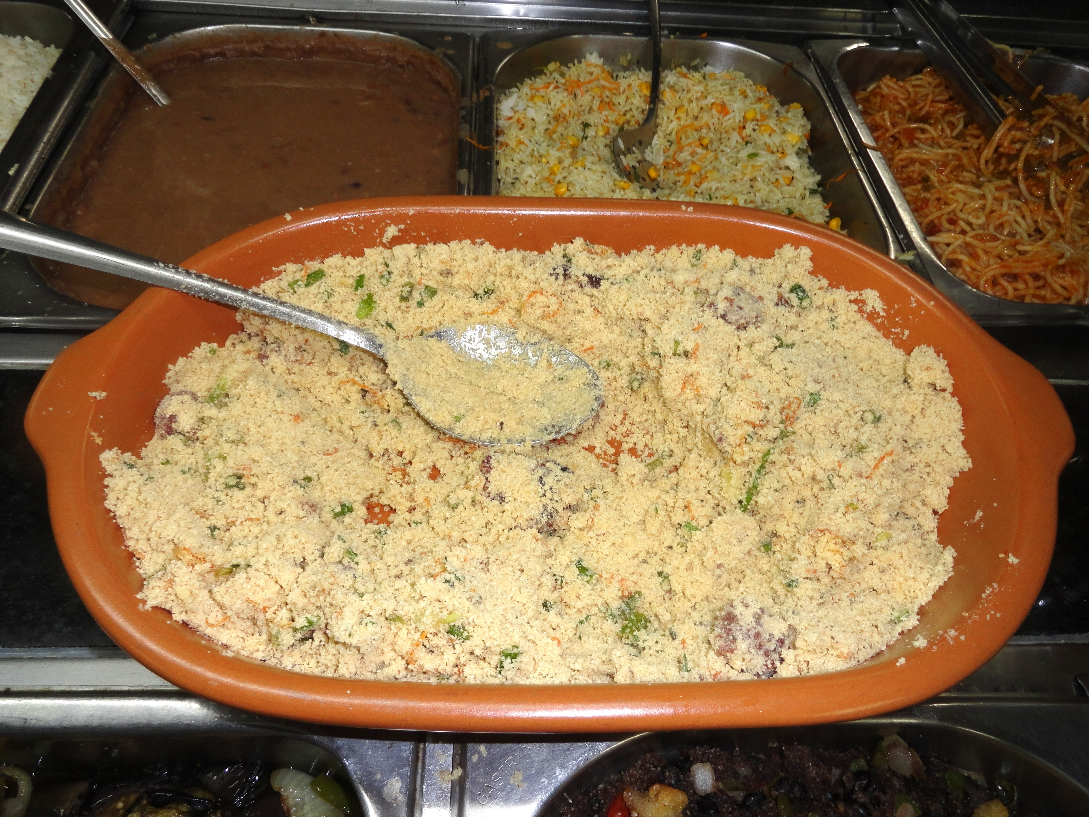 Maniok Mehl (Farofa de mandioca)